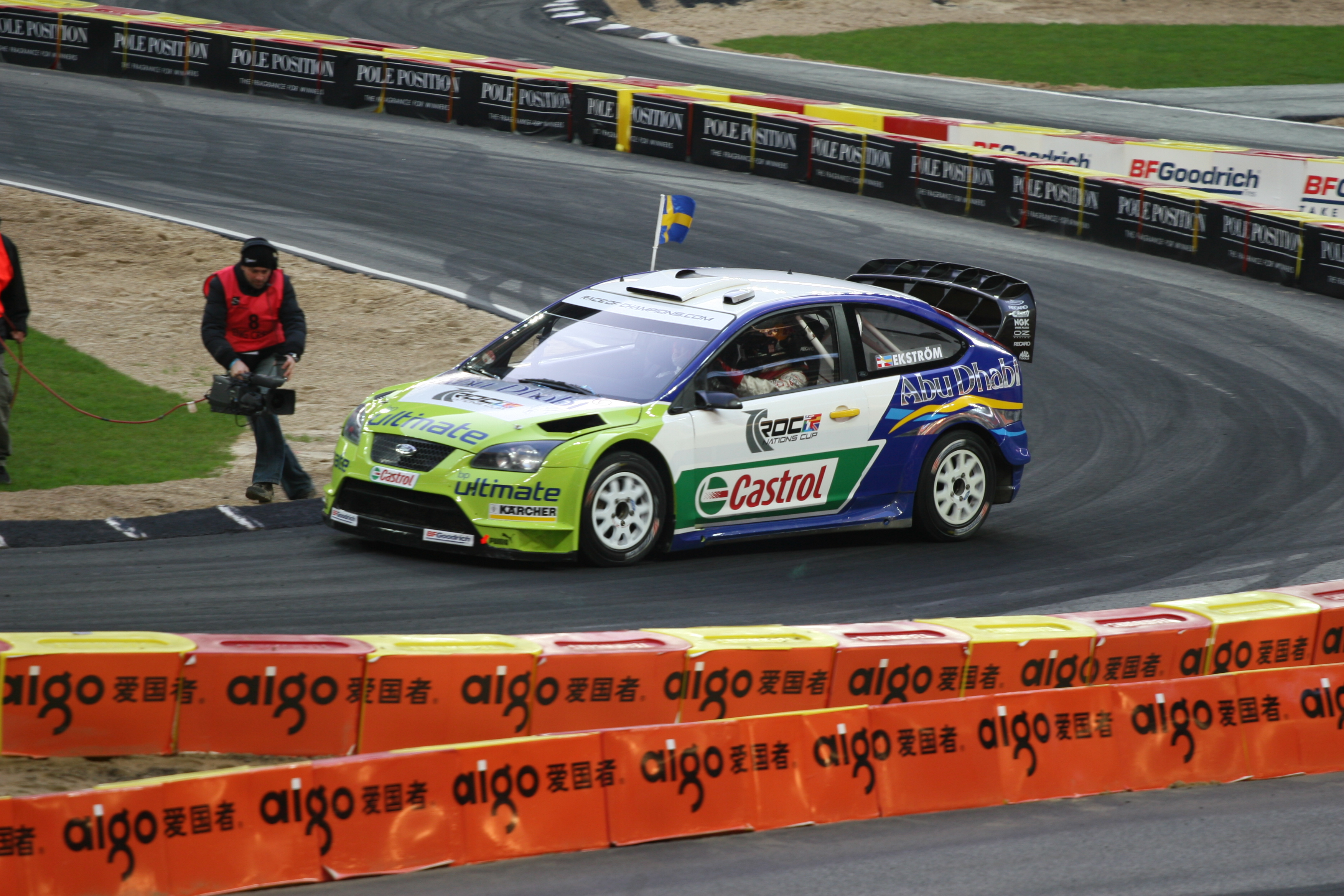 Mattias Ekström driving a Ford Focus RS WRC 07 at the 2007 Race of Champions at Wembley Stadium.